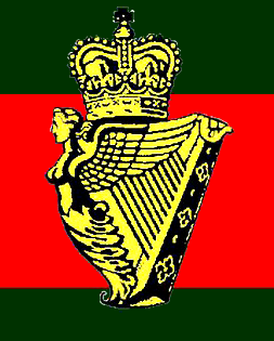 A representation of the Ulster Defence Regiment Insignia